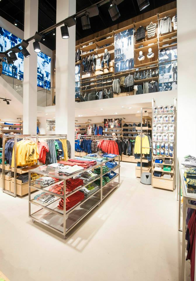 WE Store in Brussel